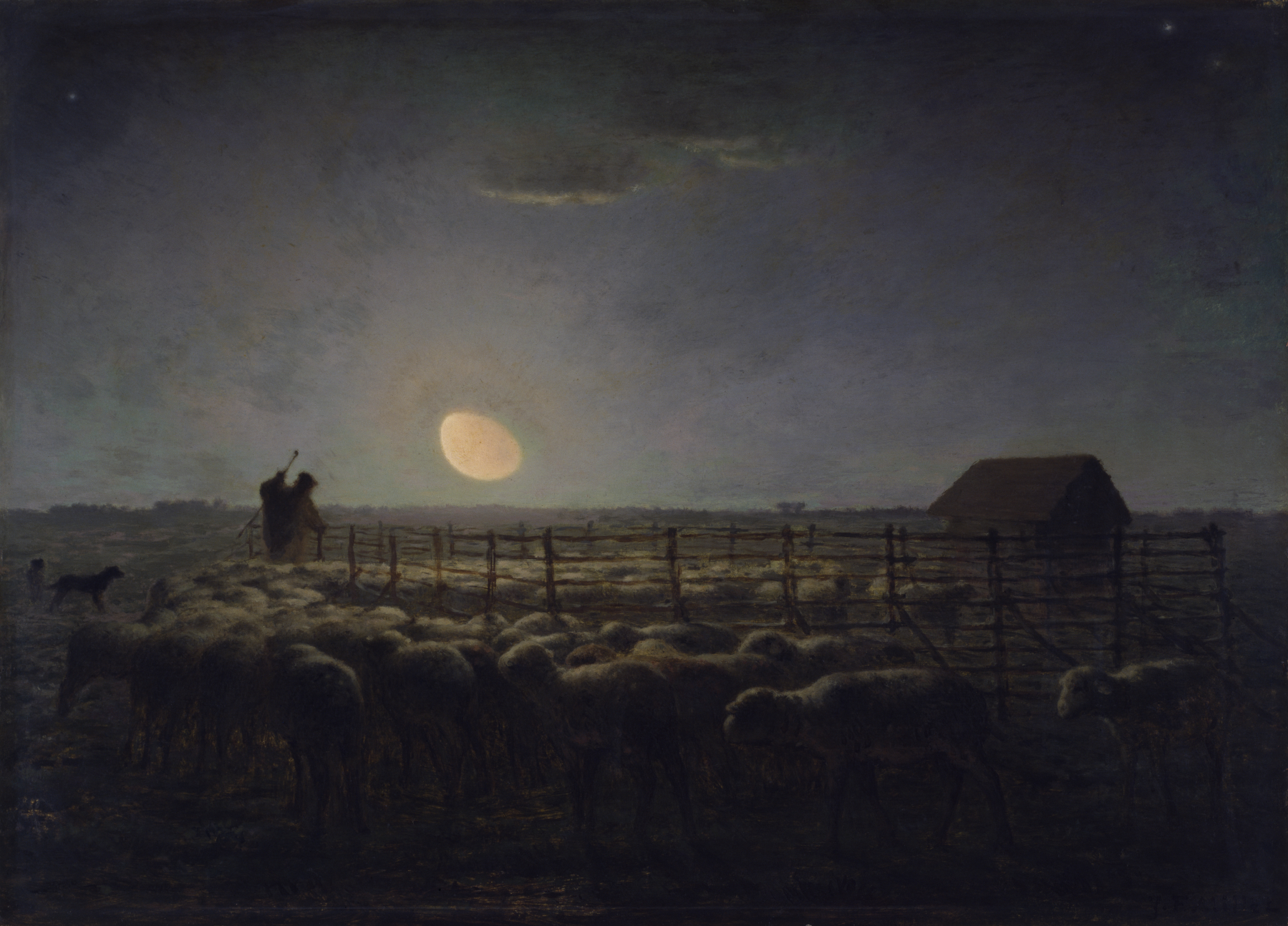 In this nocturnal scene, the waning moon throws a mysterious light across the plain extending between the villages of Barbizon and Chailly. Millet was recorded as saying of the solitary shepherd: "Oh, how I wish I could make those who see my work feel the splendors and terrors of the night! One ought to be able to make people hear the songs, the silences, and murmurings of the air. They should feel the infinite...." Although educated and trained in Paris, Millet was born into a peasant family from the Normandy region of northern France. Millet drew on this background, specializing in scenes of peasant life. An outbreak of cholera in 1849 forced Millet to leave Paris with his family and settle in the village of Barbizon, where he became acquainted with the Barbizon artists Théodore Rousseau, Virgile Narcisse Diaz de la Peña, Constant Troyon, and Antoine-Louis Barye.